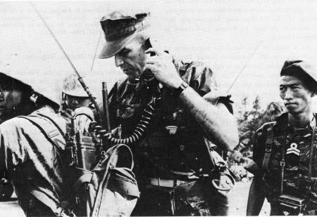 USMC Captain Franklin P. Eller, advisor to the 4th Vietnamese Marine Battalion, coordinates with other American-advised units operating nearby during the Tet Offensive